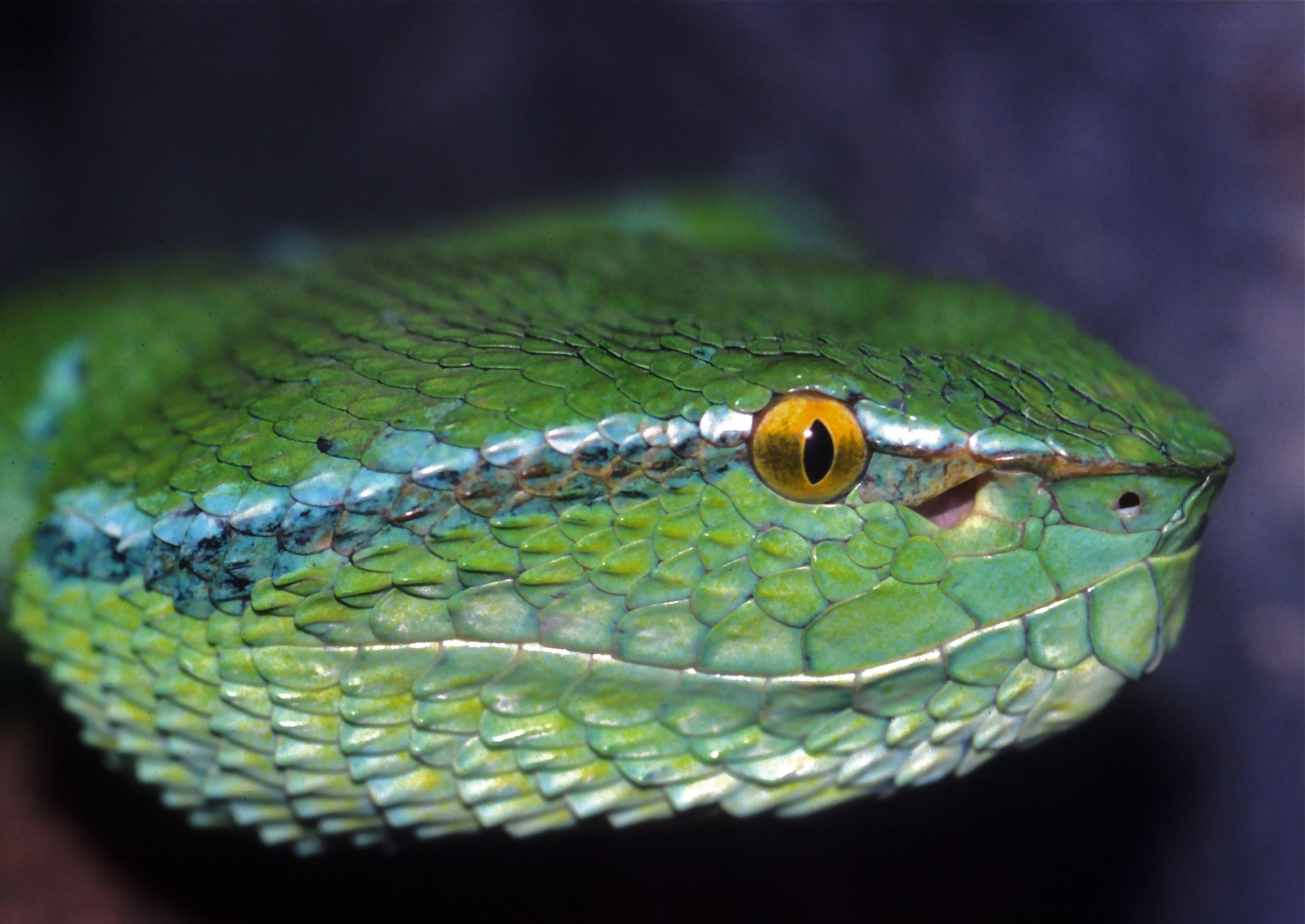 Zoo, Bangkok, THAILAND Scanned Slide from 2003